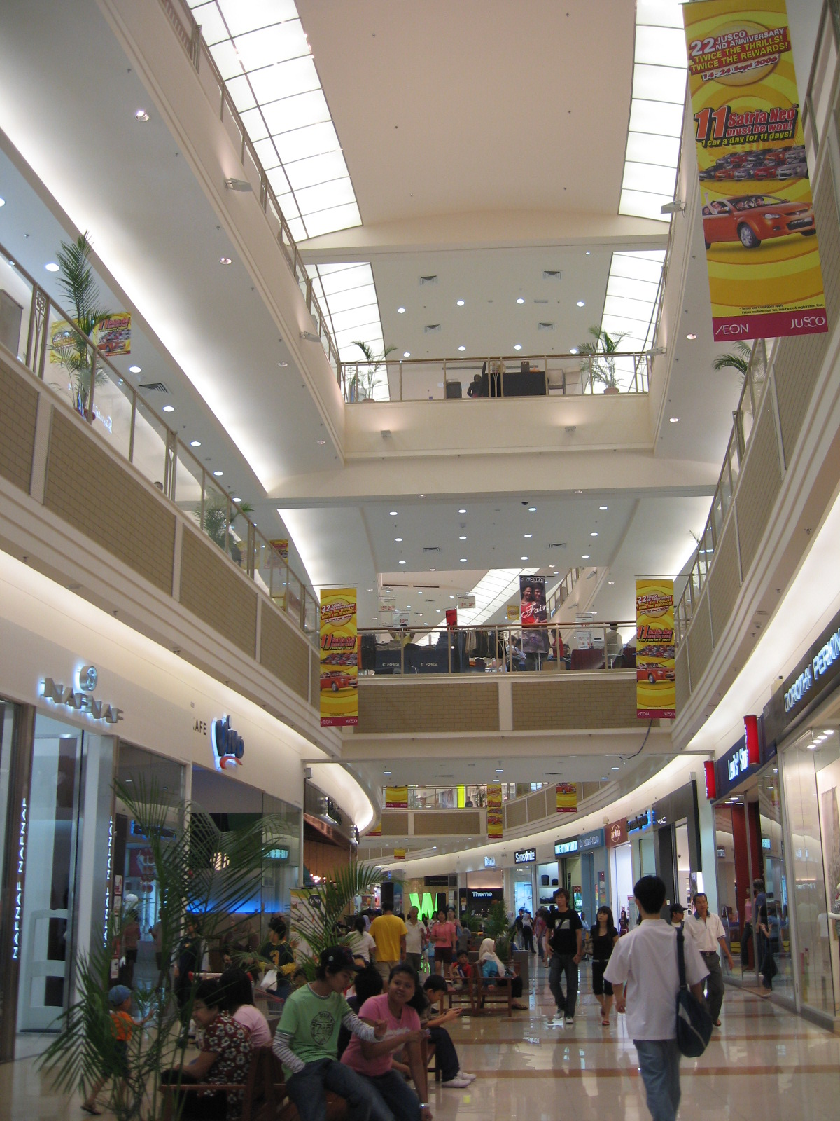 AEON Terbrau City.